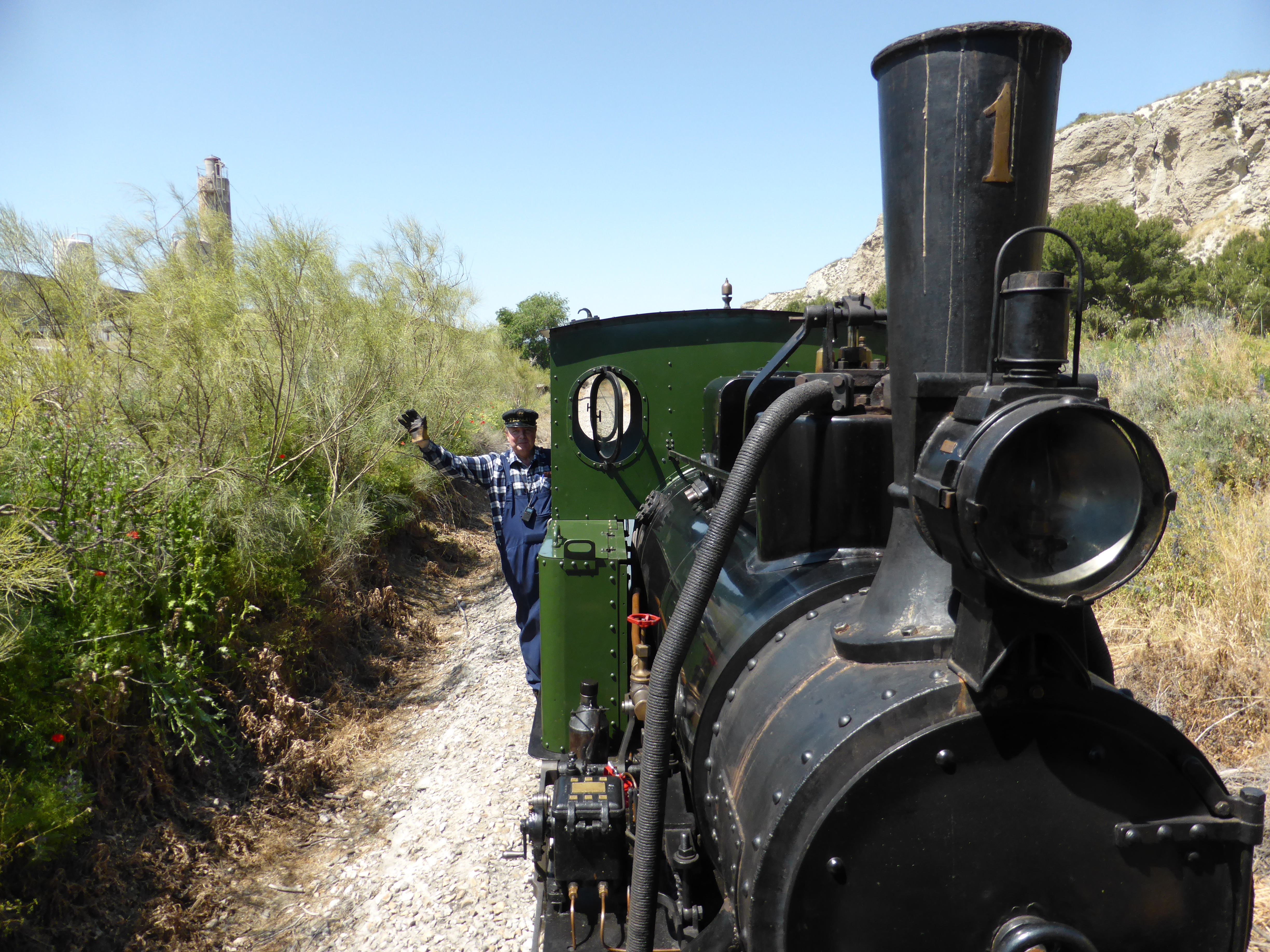 Preserved steam locomotive. Madrid, Spain. This engine is preserved by CIFVM (Vapor Madrid).